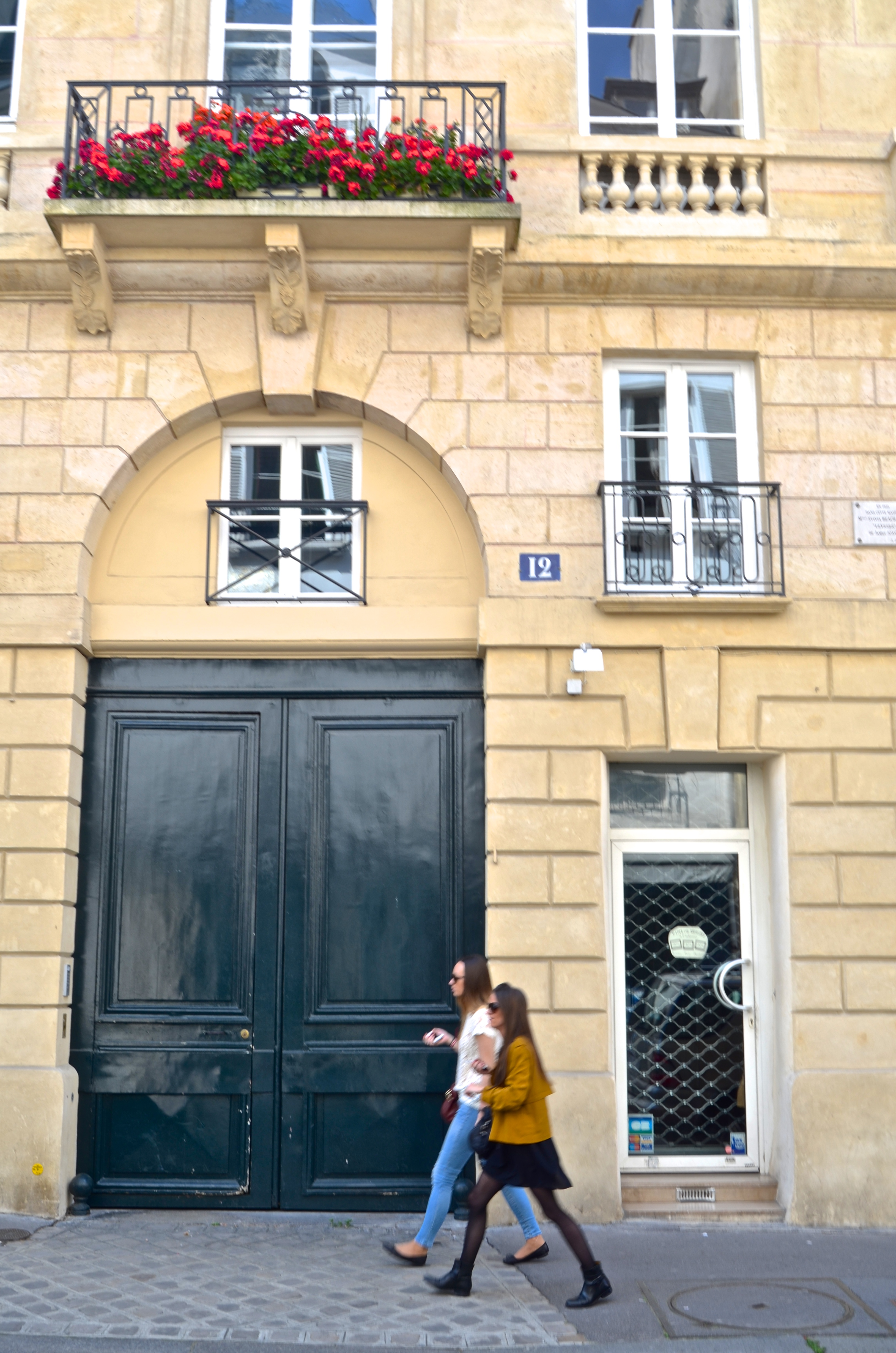 In 1922 Sylvia Beach published James Joyce's Ulysses in this apartment.